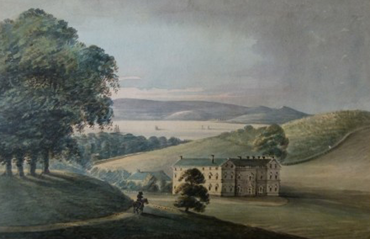 Lupton House, Brixham 1793. Painting by Rev John Swete.